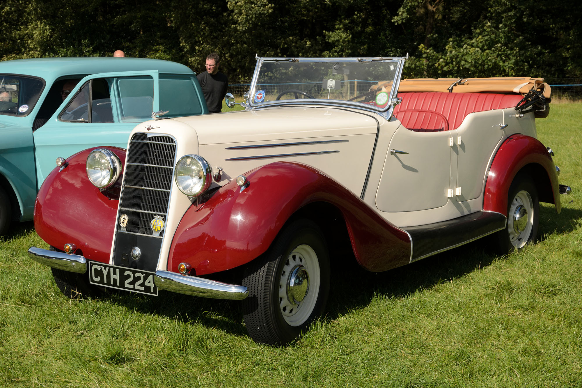 Hillman Hawk (1936) (DVLA) Manufactured 1936, 3181cc Hoghton Tower Classic Car Show 13/09/2015